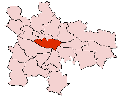 The location of Anderston within the city of Glasgow, Scotland.